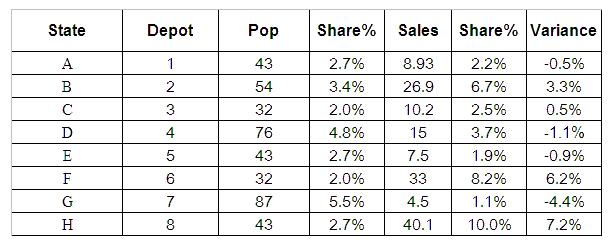 PSM employs a predicted probability of group membership e.g., treatment vs. control group--based on observed predictors, usually obtained from logistic regression to create a counterfactual group. Also propensity scores may be used for matching or as covariates—alone or with other matching variables or covariates.